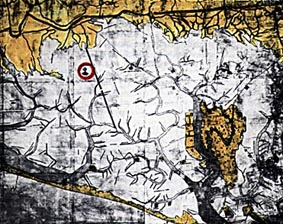 Venice central lagoon, with disappeared San Marco in Bocca Lama marked